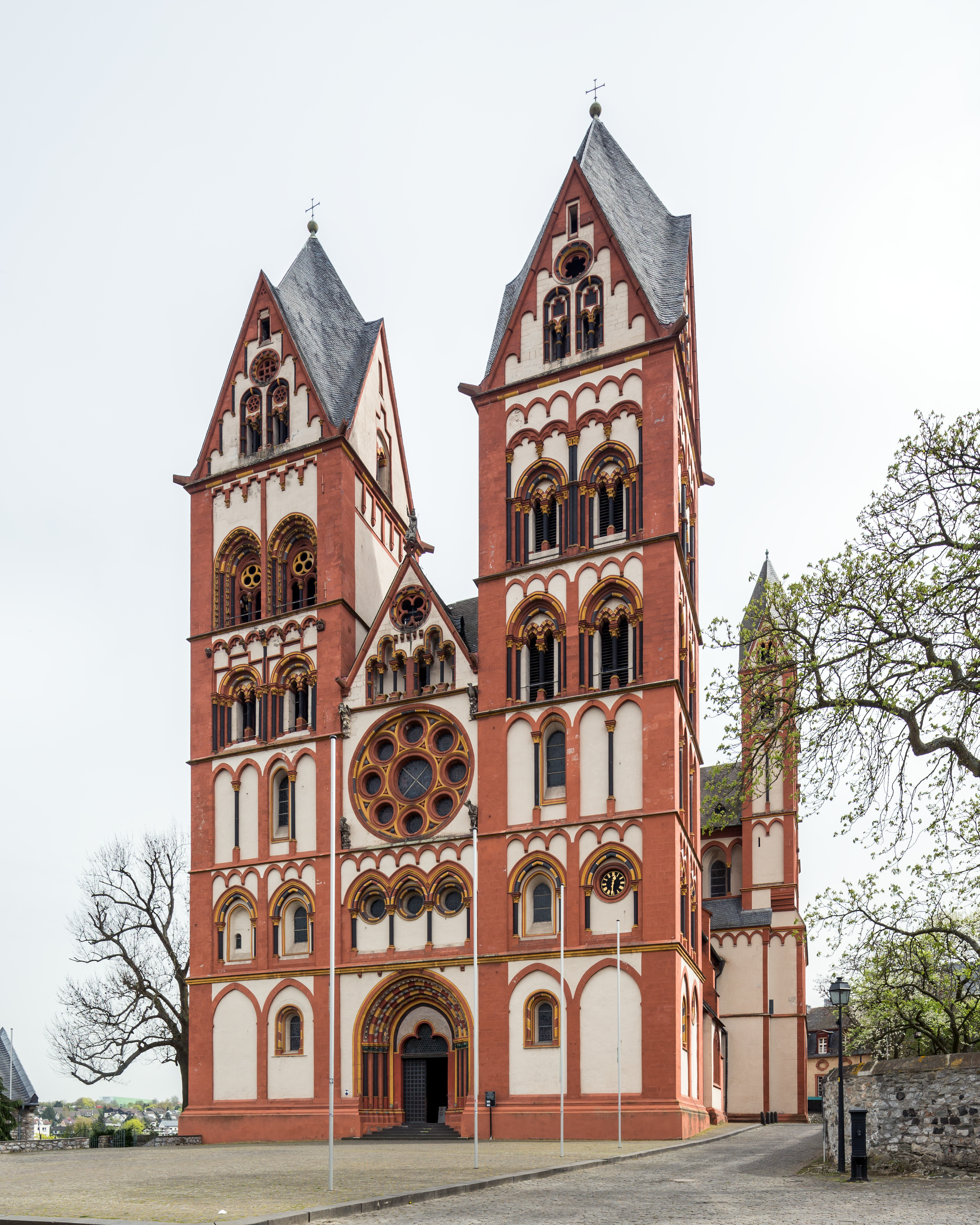 Limburg an der Lahn: Cathedral as seen from the southwest from the Domplatz (Cathedral Square)